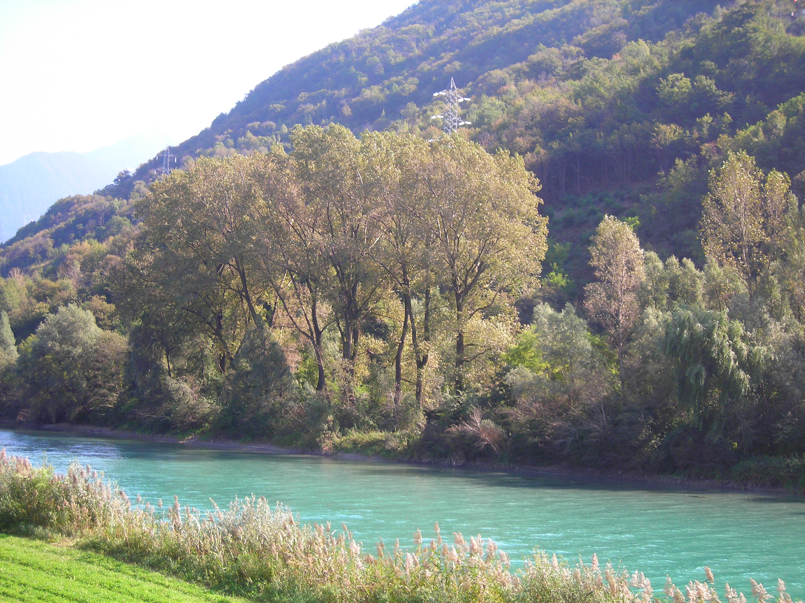 autunno